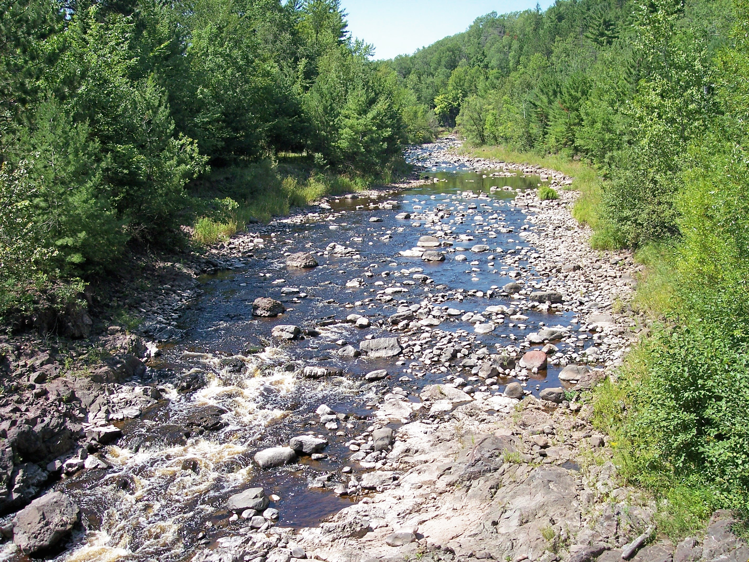 The Bad River in Copper Falls State Park, north of Mellen in Ashland County, Wisconsin